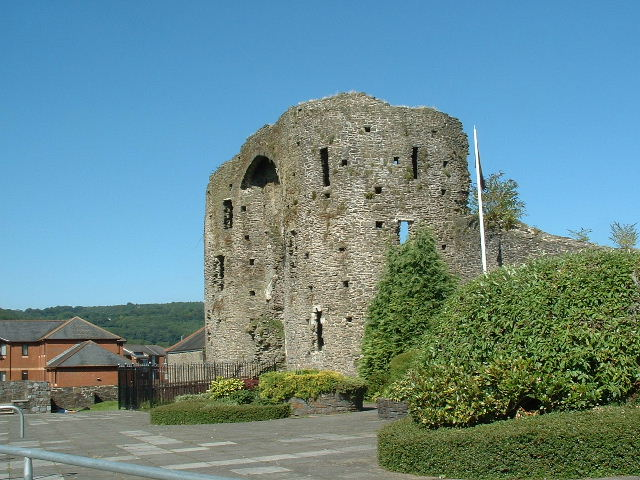 Neath Castle. North end of square, from South